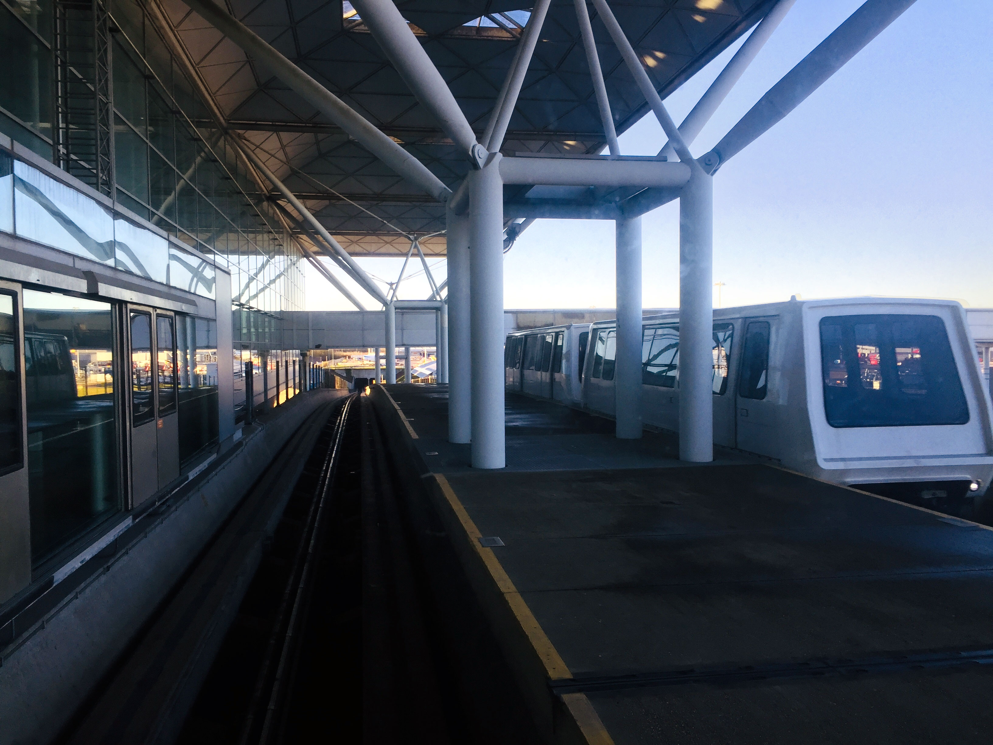 The terminal transit station at London Stansted Airport with an Adtranz C-100 people mover